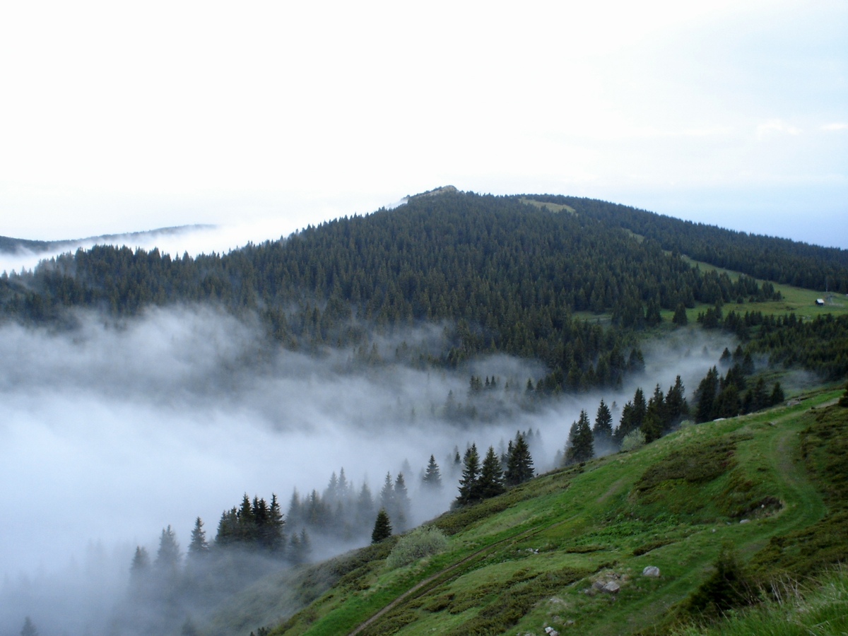 View on Vučak and Ledenice from Jaram on Kopaonik.